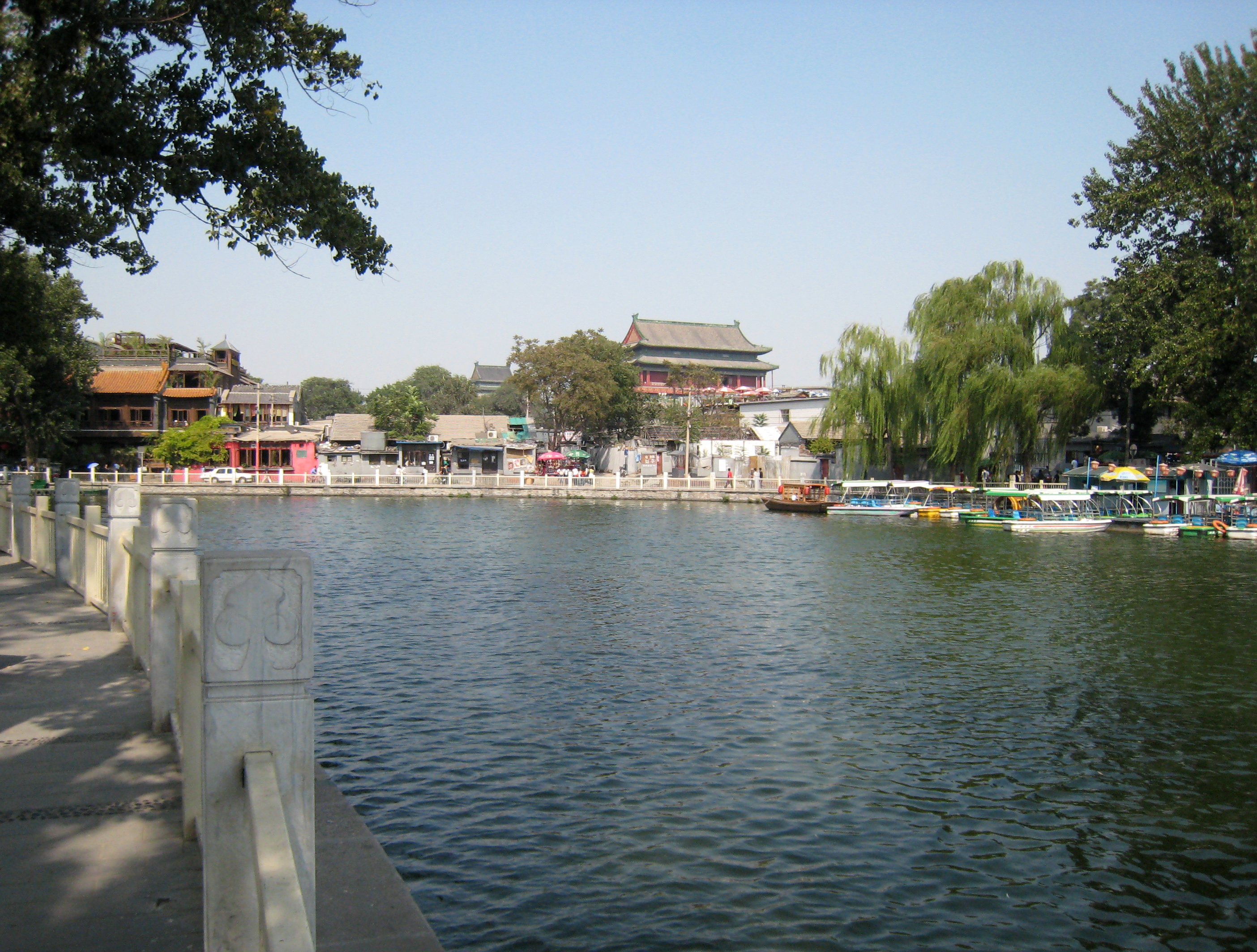 A distant view of the Gulou and Zhonglou in Beijing